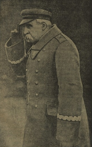 One of the last photos of Józef Piłsudski (1867-1935).